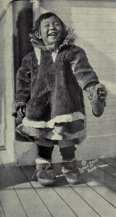 Photograph of the Inuit child known at the time as "Mugpi", who survived the Karluk disaster of 1913-14